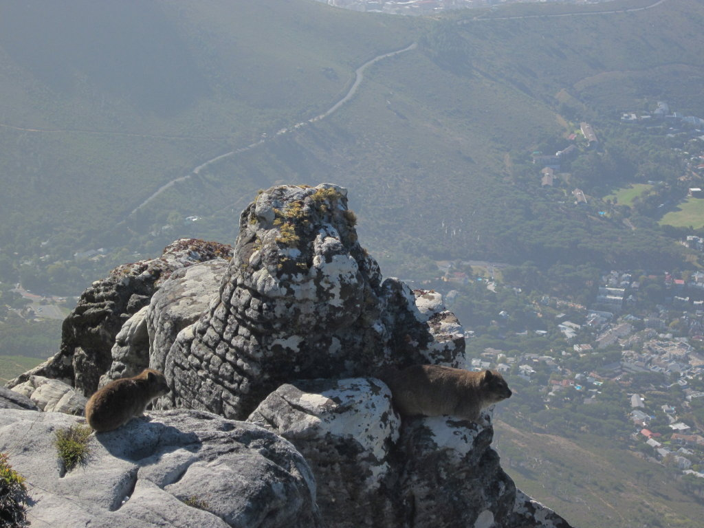 Dassies (Rock Hyrax) on Table Mountain, Cape Town, South Africa